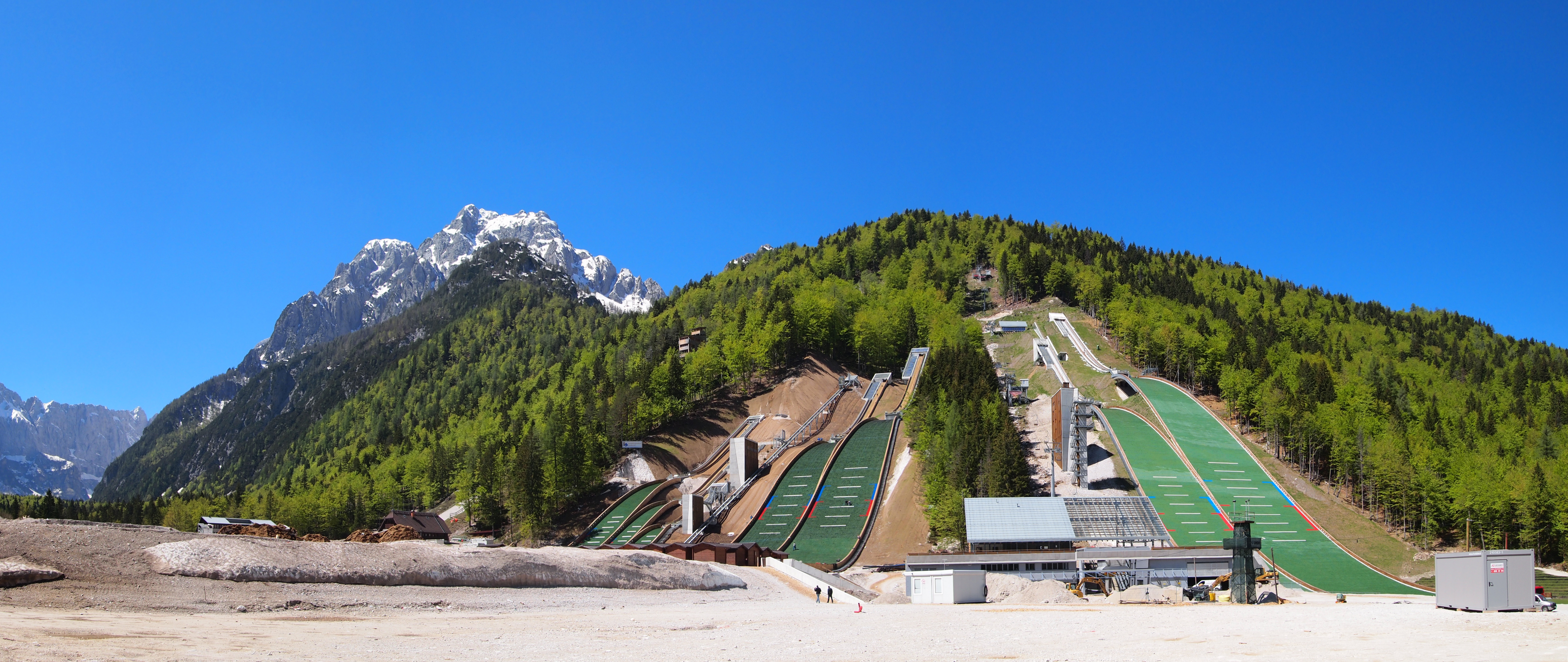 Ski jumps in Planica. This photograph was taken with an Olympus E-PL1